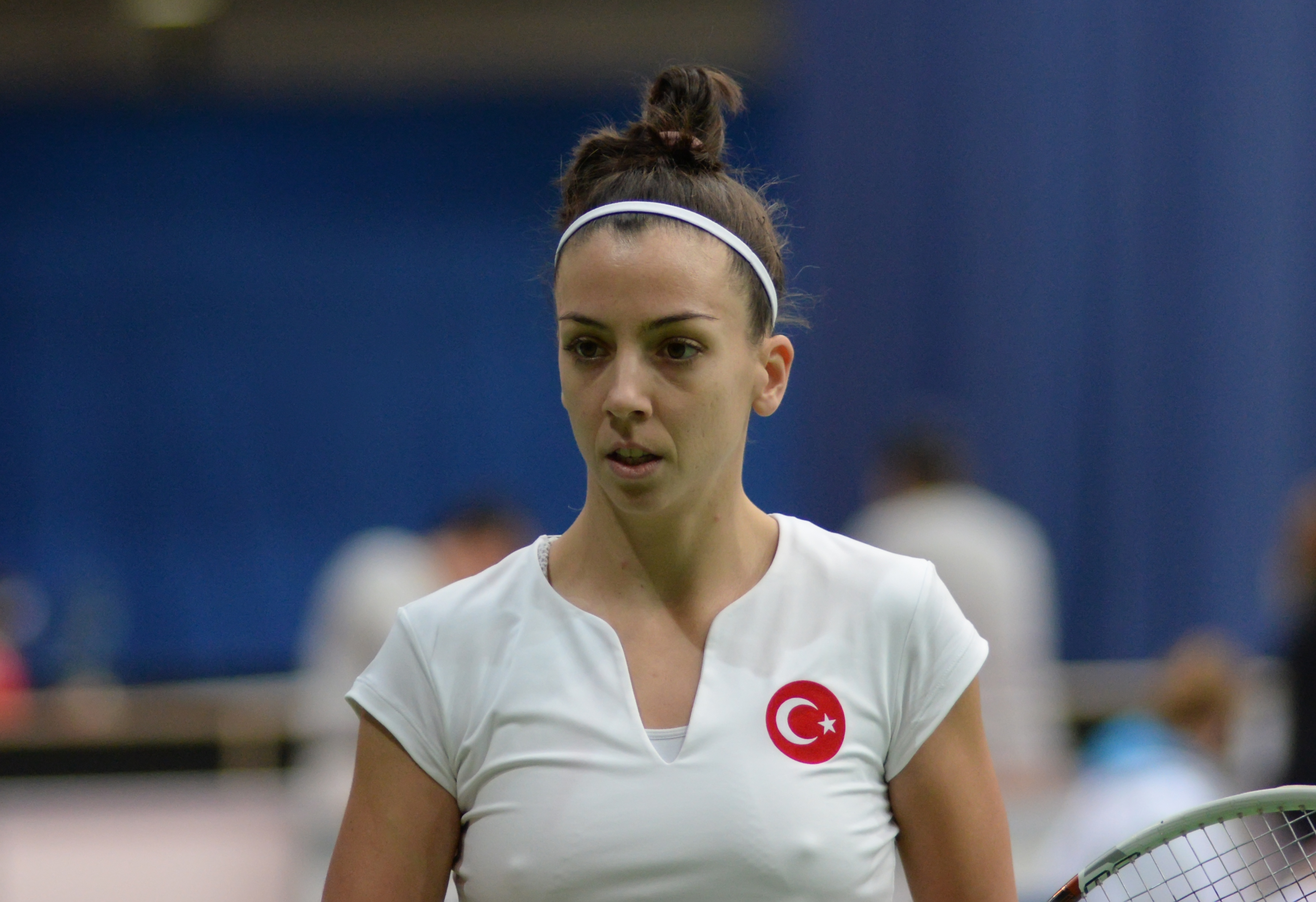 Pemra Özgen at the 2015 Fed Cup